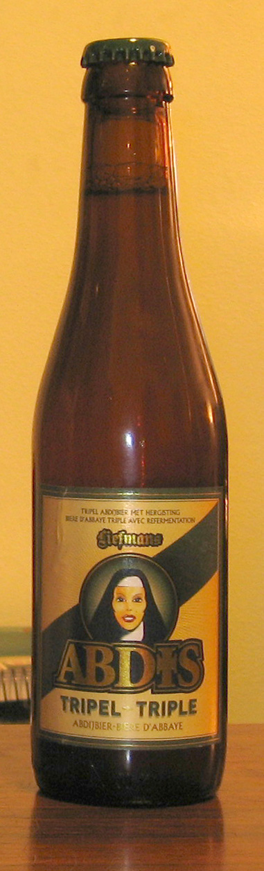 Beer Bottle of 'Liefmans Abdis'